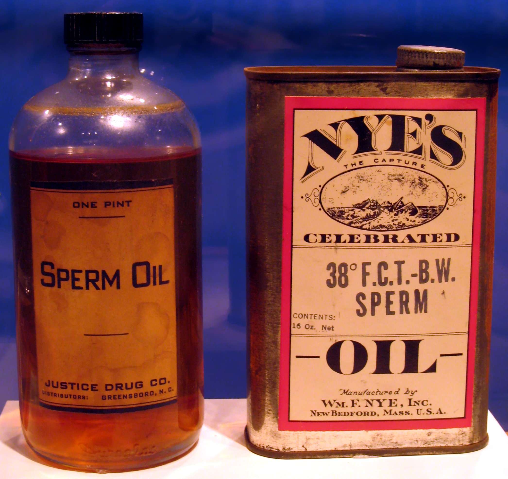 A bottle and can of sperm oil on display in the New Bedford Whaling Museum (Massachusetts, USA).